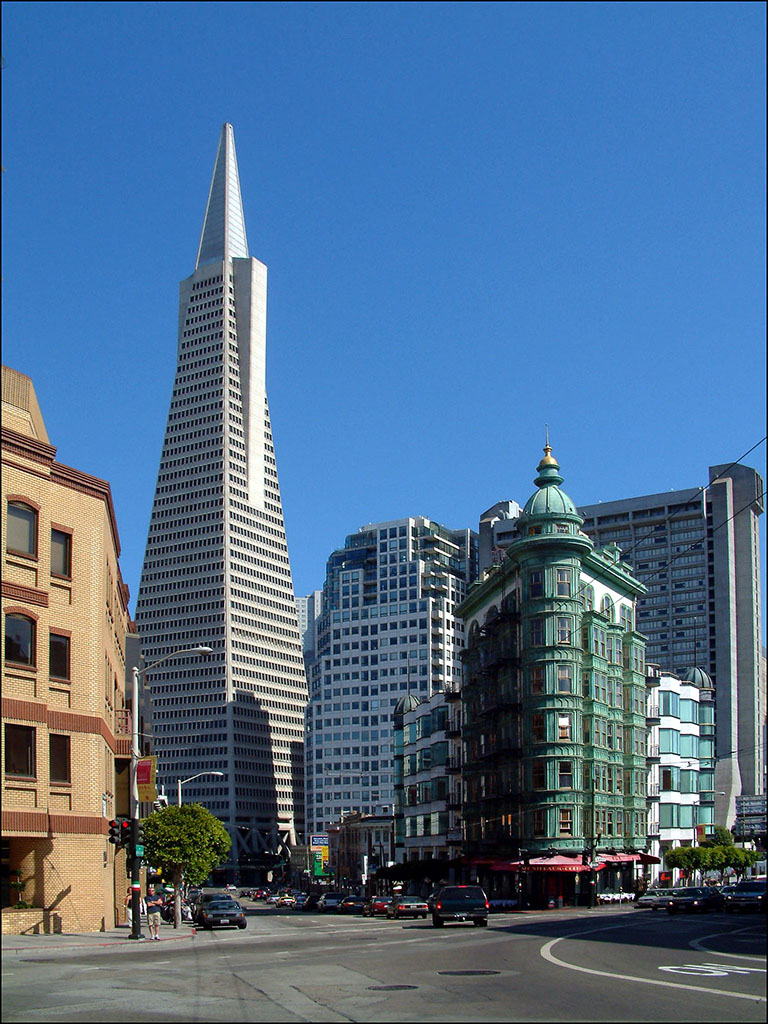 Downtown San Francisco, showing the Transamerica Pyramid, designed by William Pereira